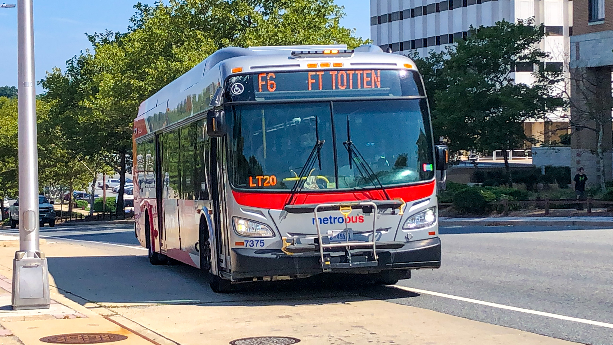 WMATA New Flyer XDE40 7375 on Route F6